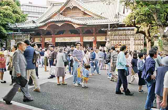 Festival at Kanda Myojin Shinto shrine, Kanda, Chiyoda Japan I took this photograph and contribute it to the public domain.